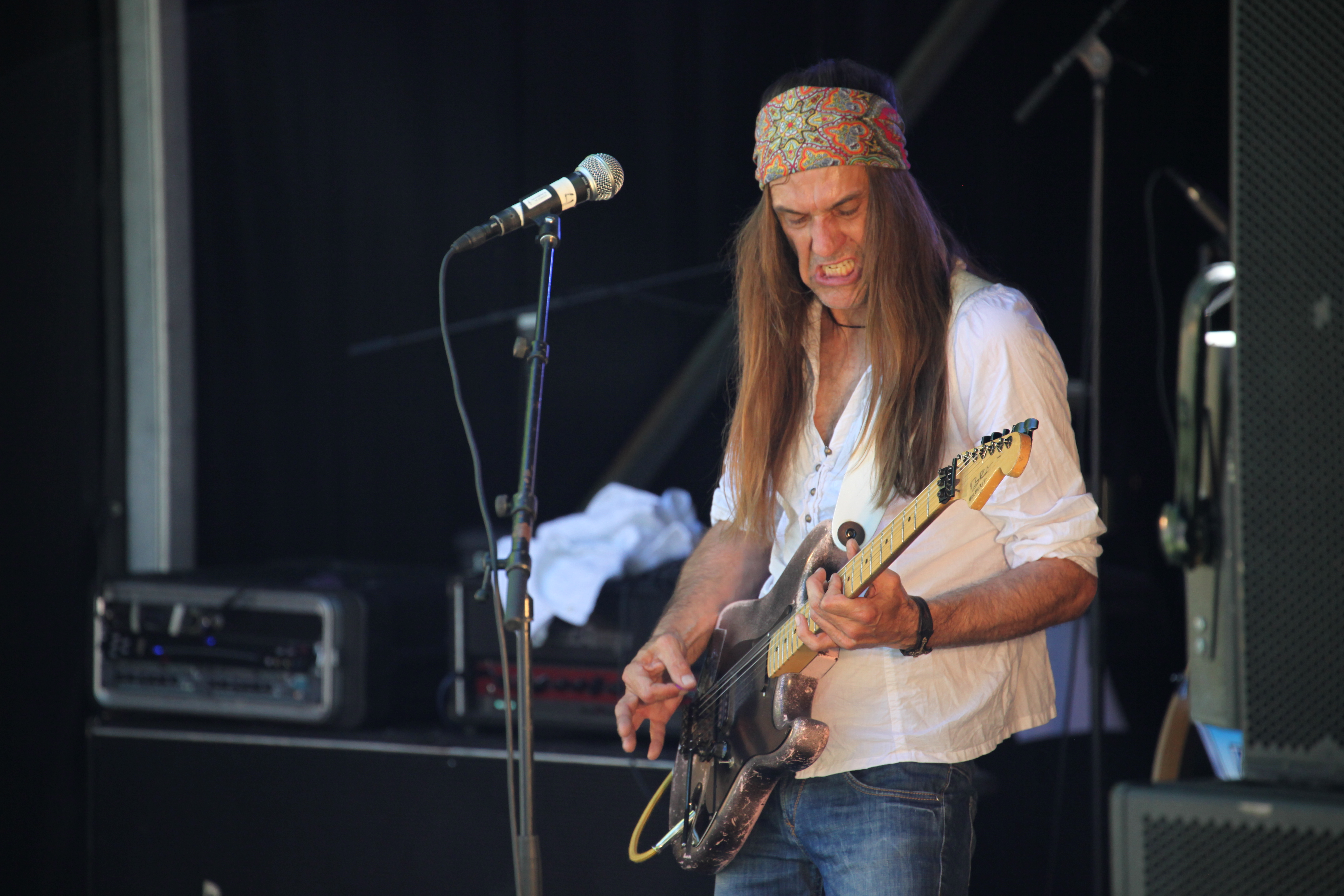 Norwegian hardrock band TNT playing at the park at headquarters of Det norske Veritas at Høvik outside Oslo, Norway, 19. june 2012